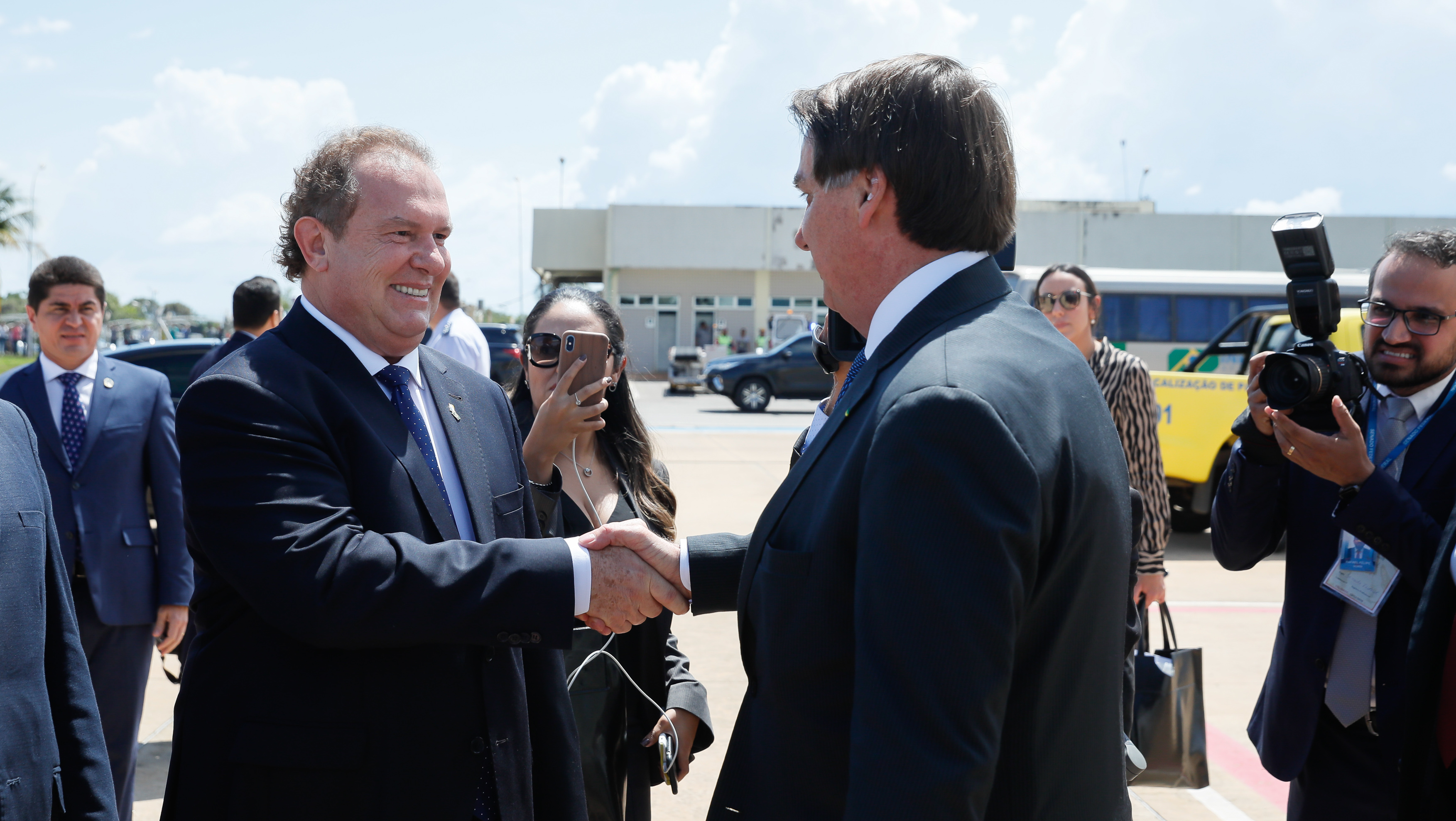 (Palmas - TO, 12/12/2019) Presidente da República, Jair Bolsonaro Recebe os Cumprimentos do Governador do Estado do Tocantins, Mauro Carlesse. Foto: Isac Nóbrega/PR